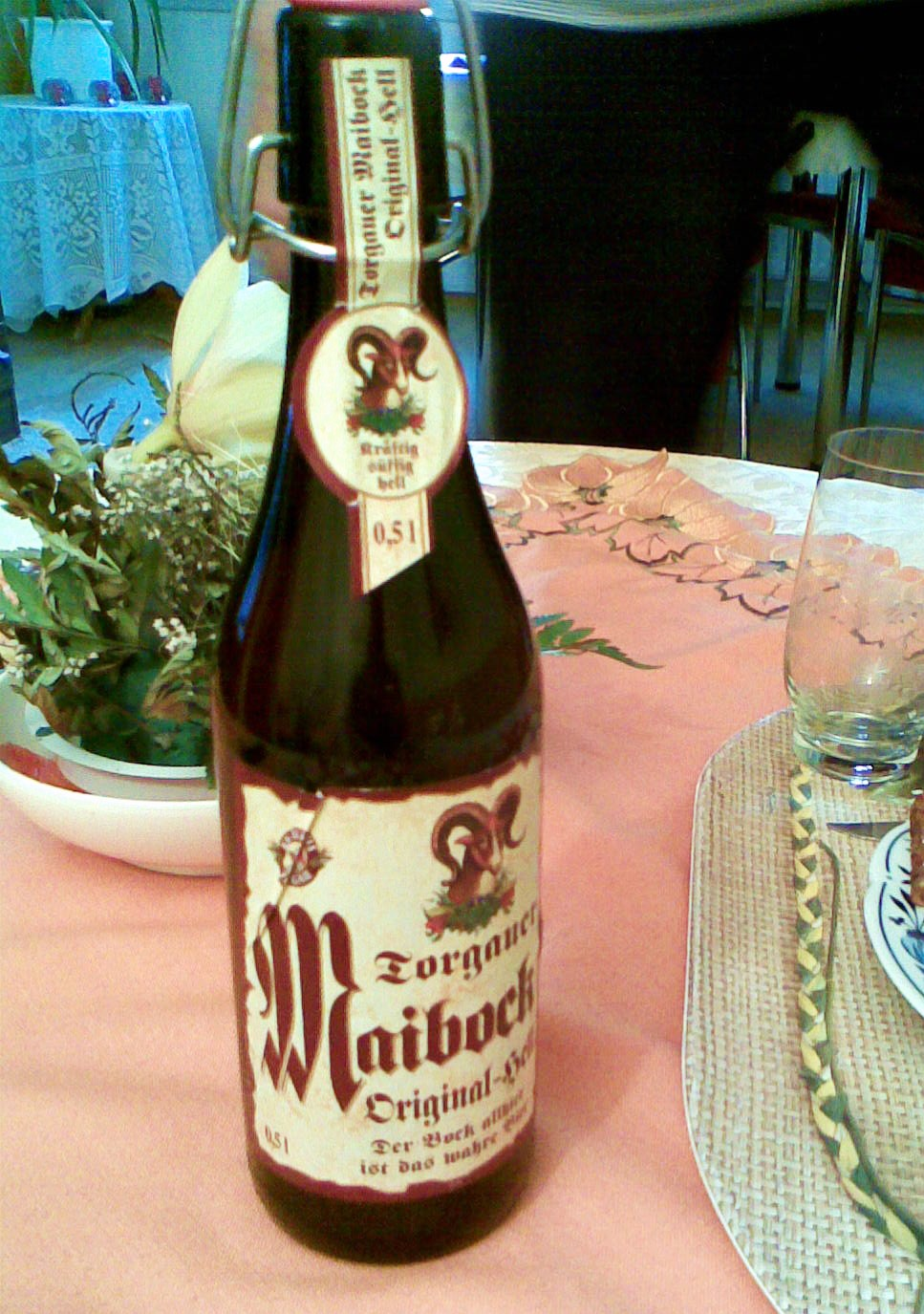 A Bottle of Beer: Torgauer Maibock from Torgau, Saxonia, Germany.